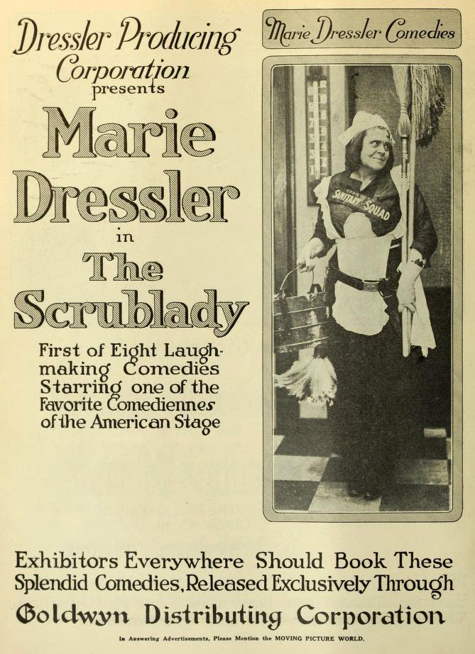 Advertisement in Moving Picture World for the American comedy film The Scrub Lady (1917).